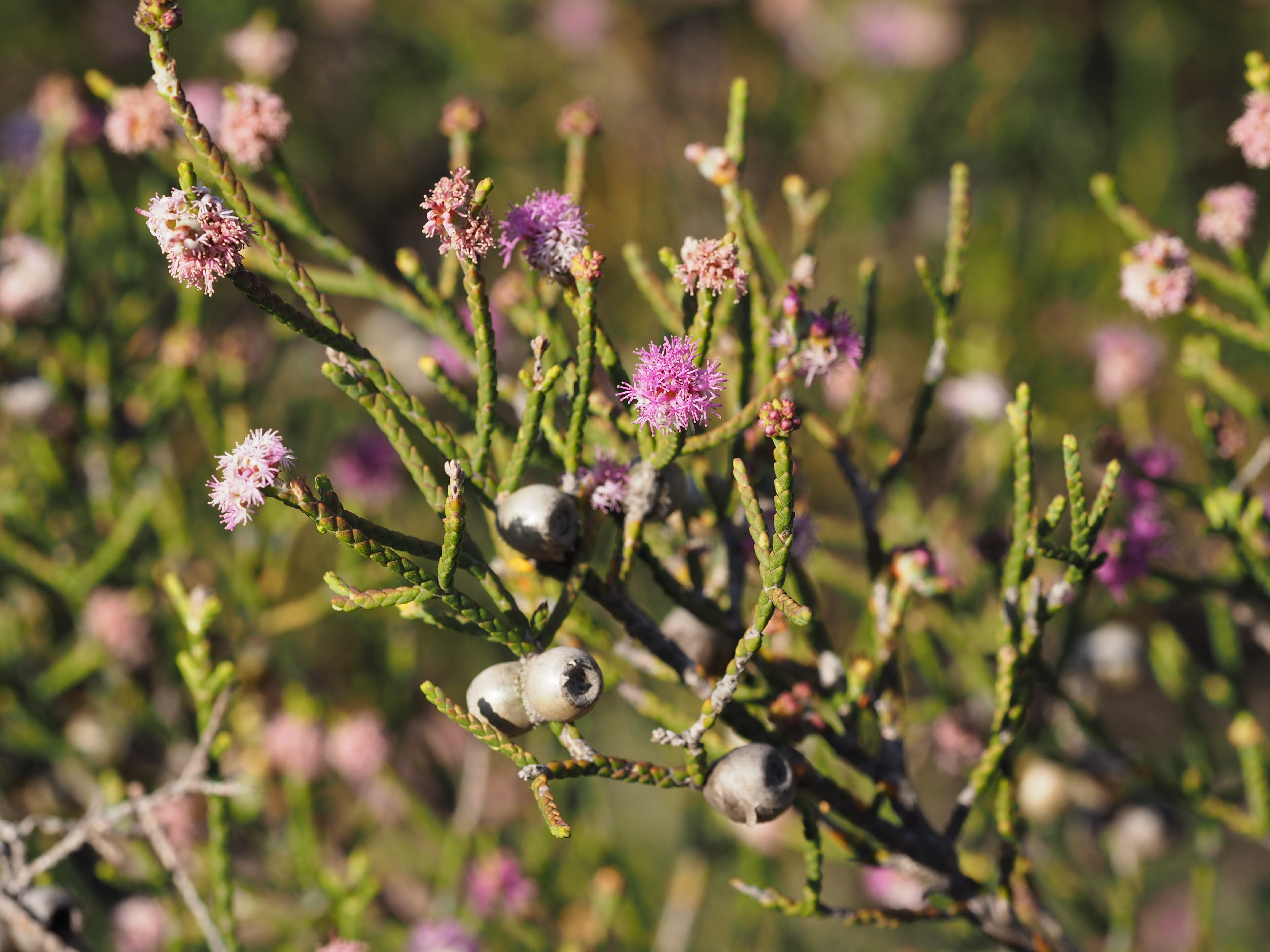 Regelia cymbifolia growing 5 km E of Tarin Rock